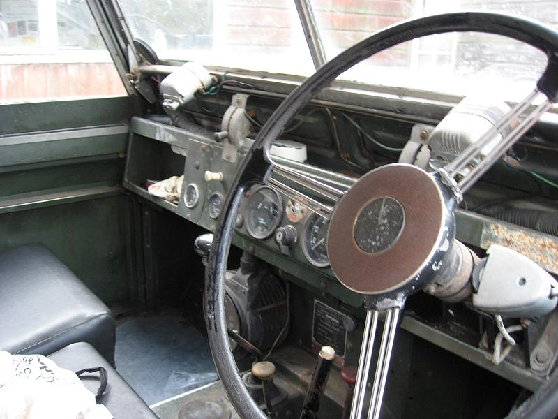 Landrover - Dash Burbage Wiltshire (DVLA) first registered 8 February 1962, 2286 cc SPR 461